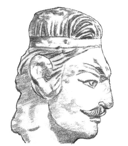 Head of a Kushan prince (Pottery), from Khaltchain palace (Uzbekistan), 1st century. Reference: "Les Saces" Iaroslav Lebedynsky ISBN 2877723372